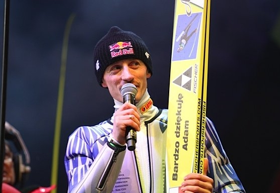 Adam Małysz during his benefit — Adam's Bull's Eye on March 26, 2011 in Zakopane.